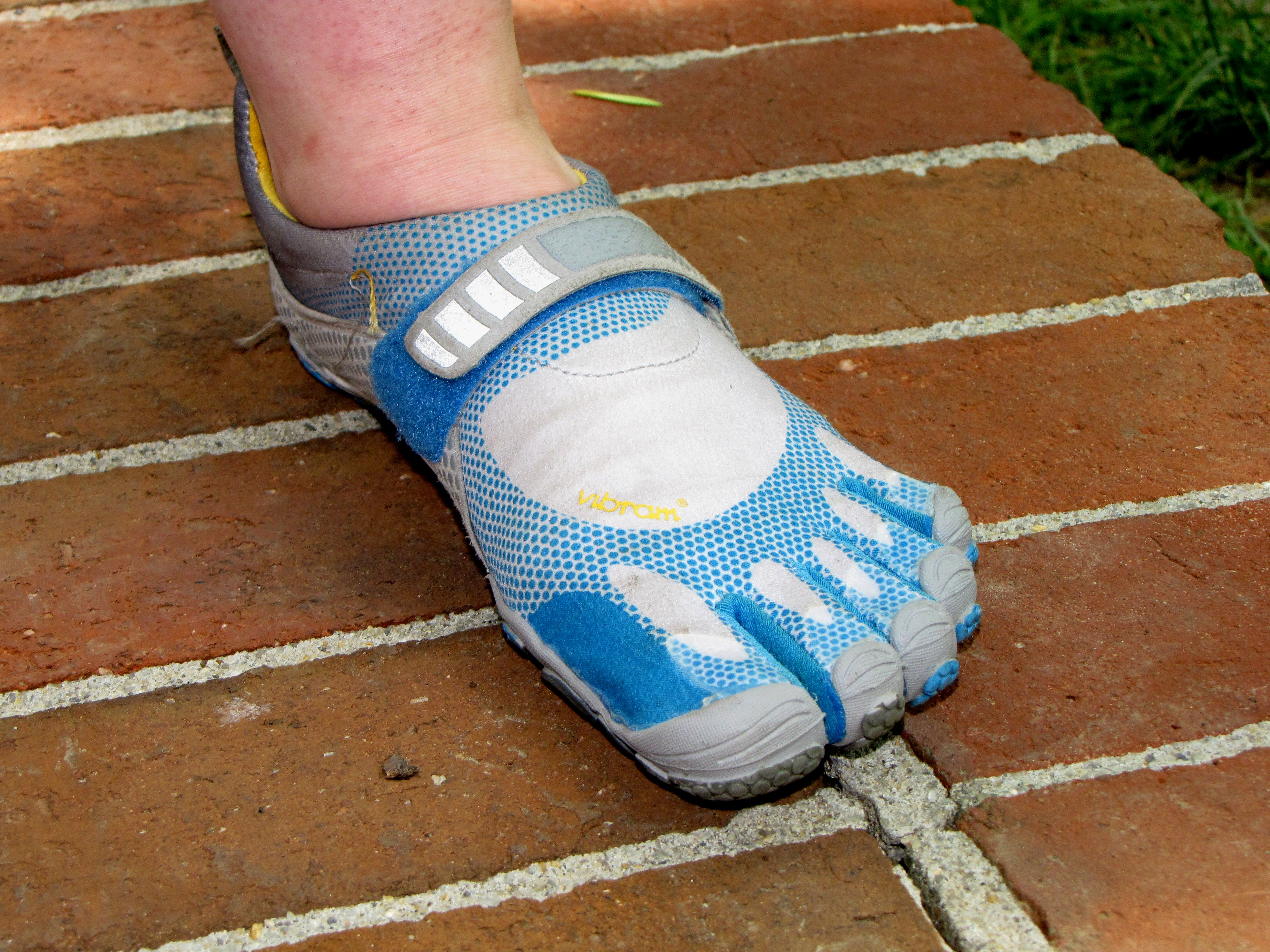 Vibram FiveFingers Bikila shoes, top view.